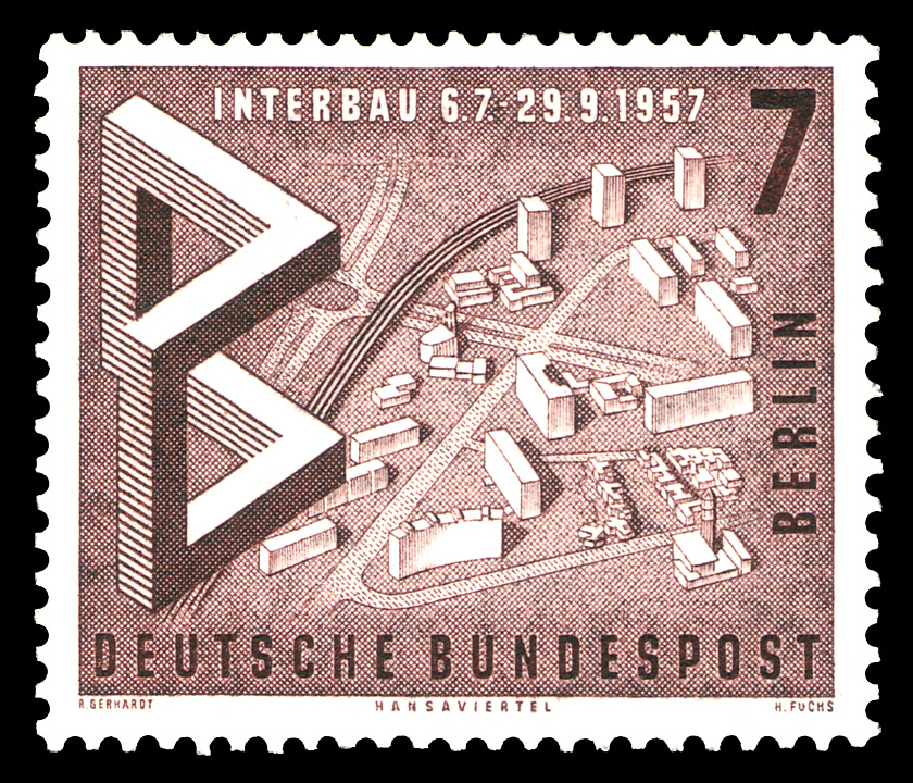 stamp for the international exhibition of building structure Interbau